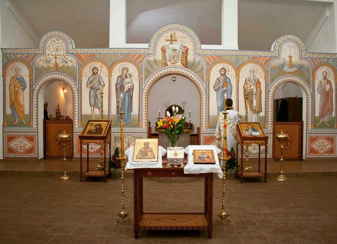 Košice Orthodox Cathedral (interior)